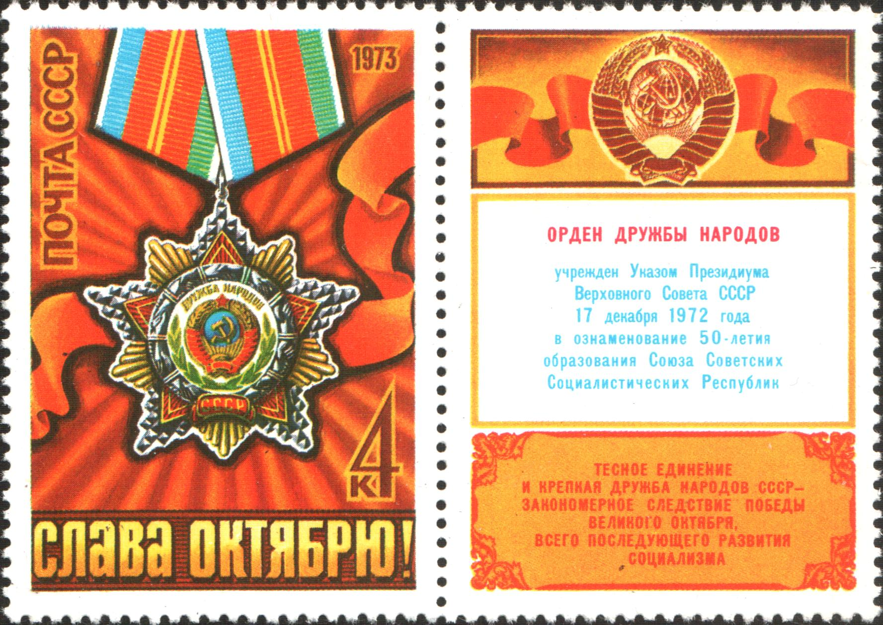 A USSR stamp, Awards of the Soviet Union